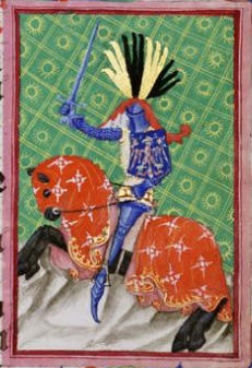 John Henry, Margrave of Moravia